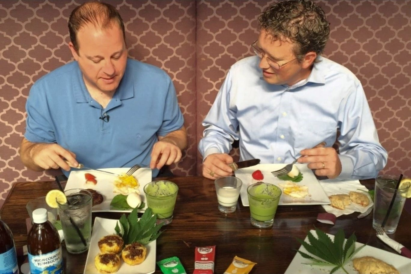 U.S. Representative Jared Polis states: "Yesterday morning, Congressman Thomas Massie and I met up in Colorado and cooked something we dubbed "The Forbidden Meal." We dined on hemp scones, raw milk, kombucha, farm eggs, and two cuts of beef raised by Rep. Massie himself...all to raise awareness about food freedom issues and the sometimes archaic and nonsensical federal regulations that govern our food and interfere with our freedom." Photo has been altered slightly from the original to reduce brightness.